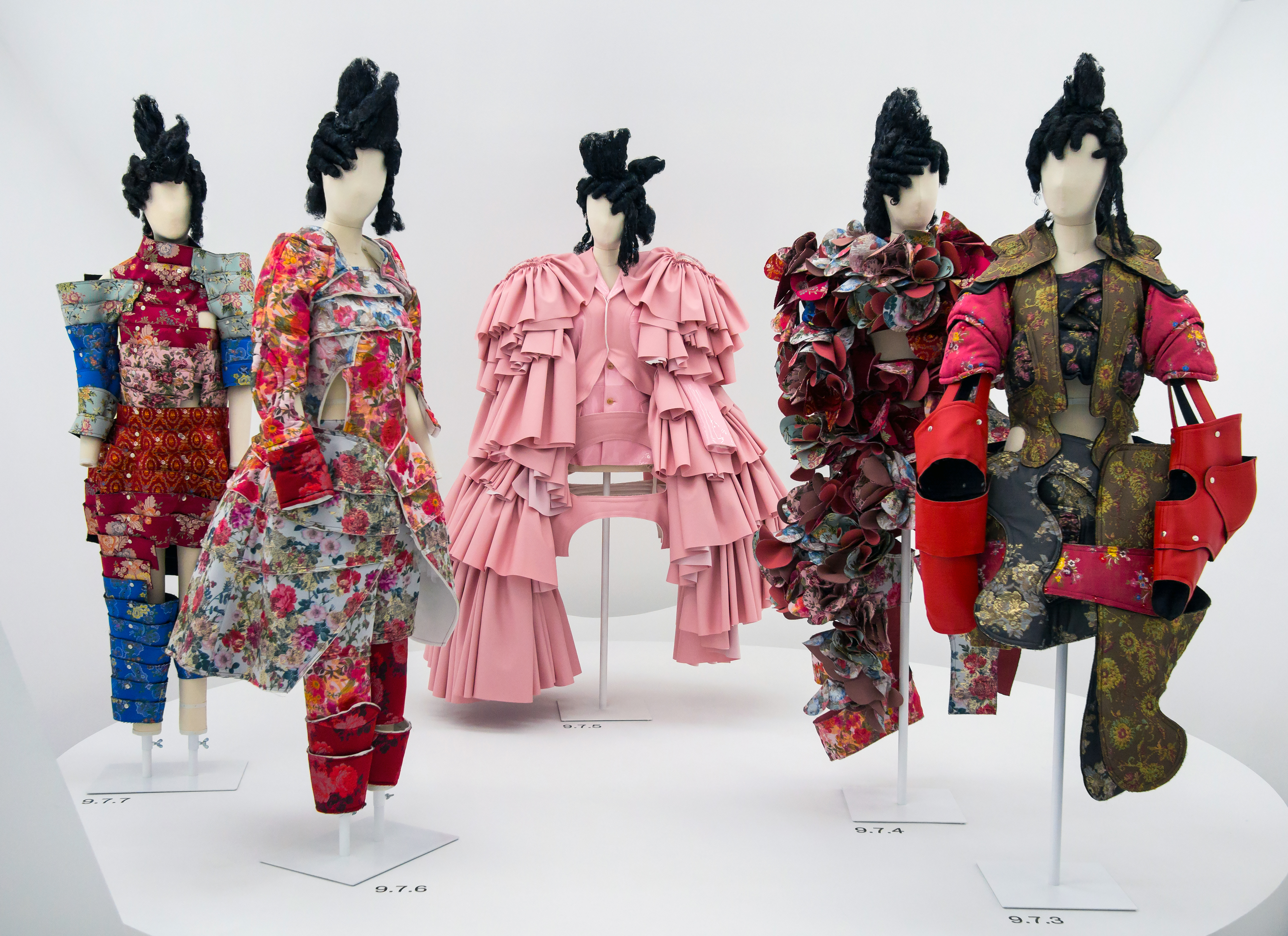 The Rei Kawakubo / Comme des Garcons Art of the In-Between show at the Met.